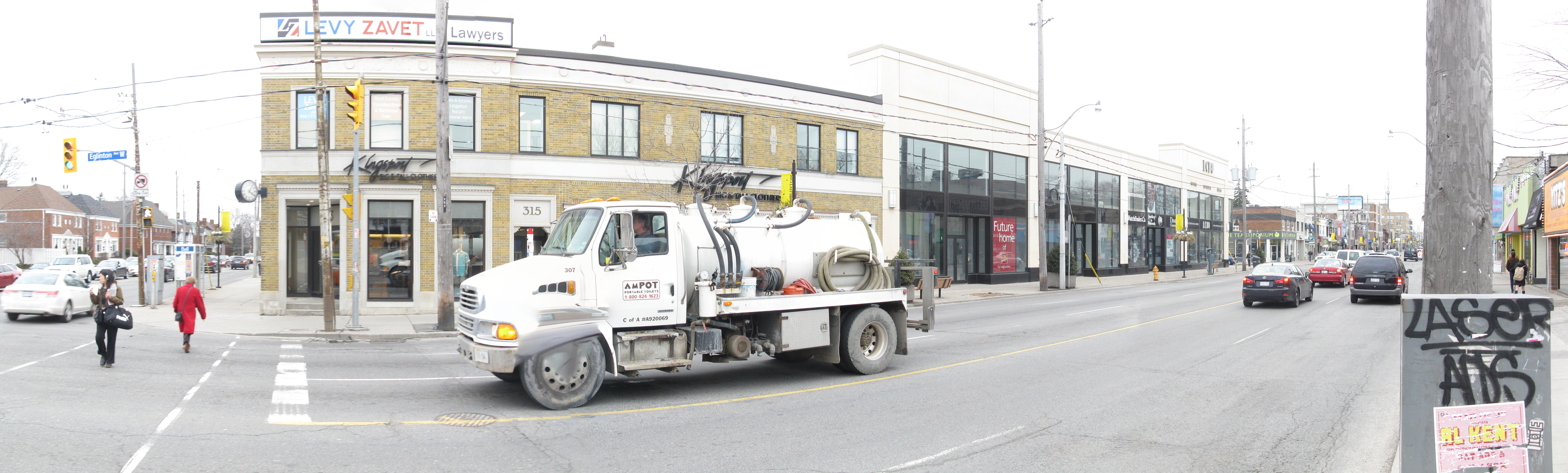 Intersection of Avenue Road and Eglinton, the future site of a below grade Eglinton Crosstown LRT station.